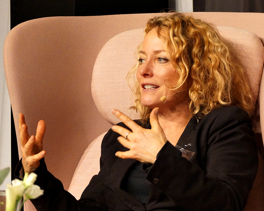 Maise Njor - Danish journalist and writer at the Copenhagen Book Fair "BogForum 2014", Copenhagen, Denmark